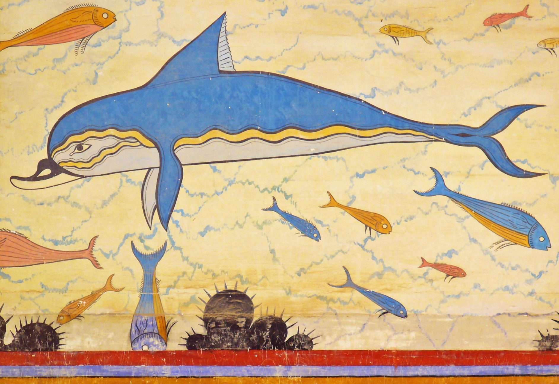 Delphinus delphis, Delphinidae, Common dolphin; Dolphin Frescoe in the Queen’s Megaron, Palace of Knossos, Crete, Greece.This Dolphin frescoe at Knossos is a replica of a minoan frescoe. The original was found fragmentary in Knossos, restored by the Artist Piet de Jong between 1922 and 1930, and is now in the Heraklion Archaeological Museum.